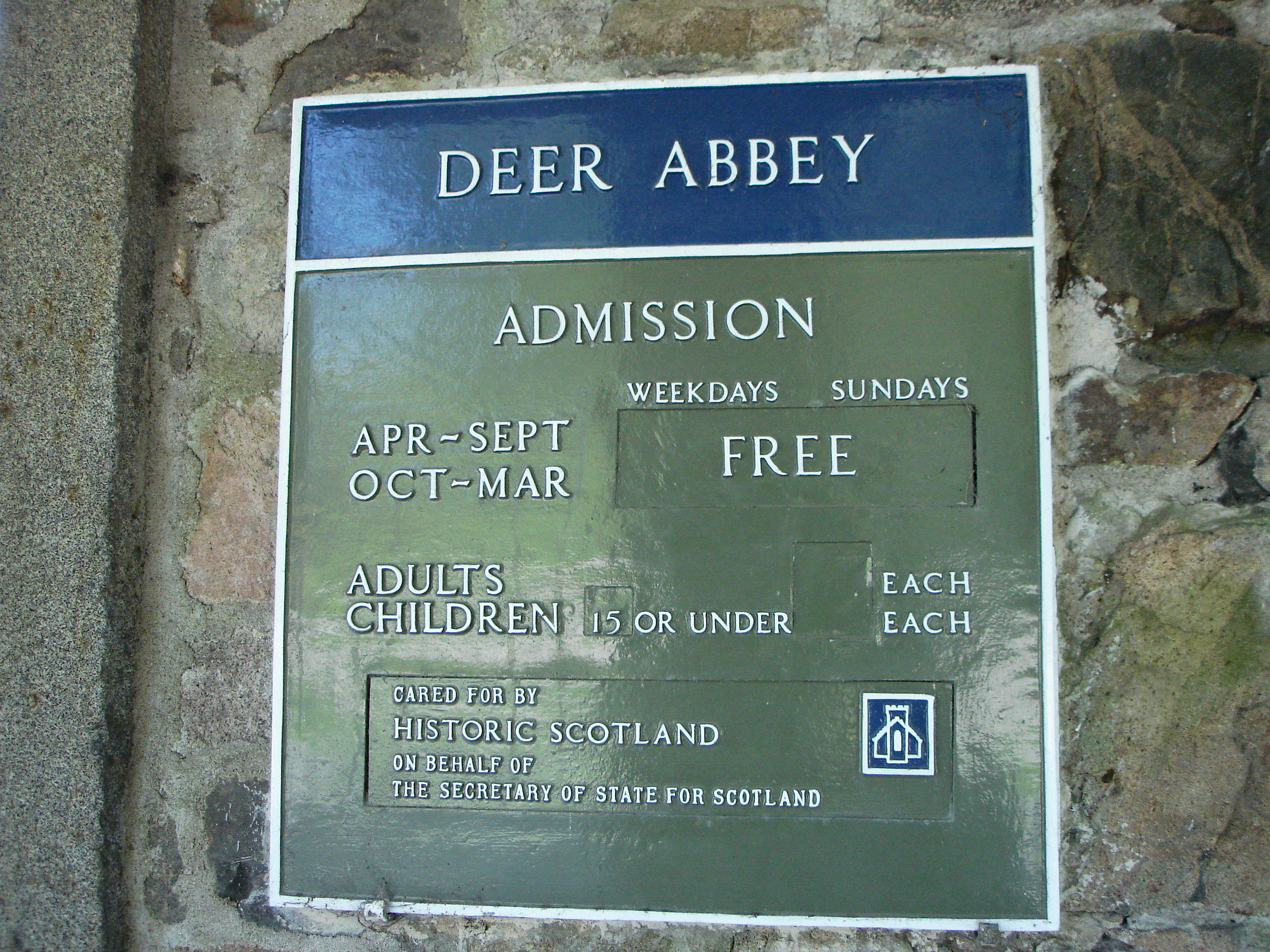 Uploader's own picture. Taken in the summer of 2006.